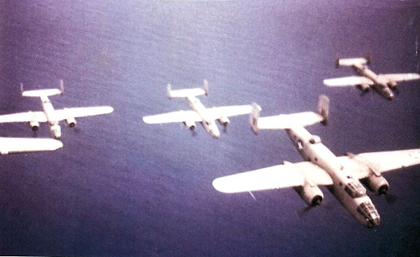 B-25C Mitchells of the 434th Bombardment Squadron, 12th Bombardment Group in desert pink flying under the No. 3 Wing, South African Air Force, Ismailia Airfield, Egypt flying to attack enemy targets in Libya in August 1942.(USAAF Photograph)